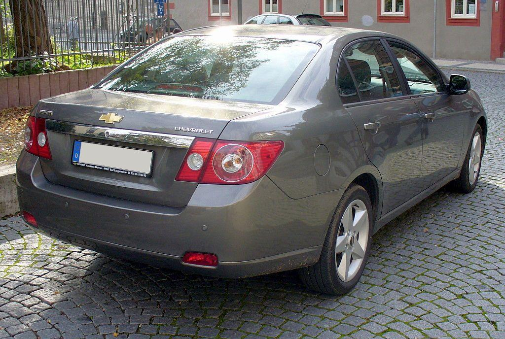 Chevrolet Epica